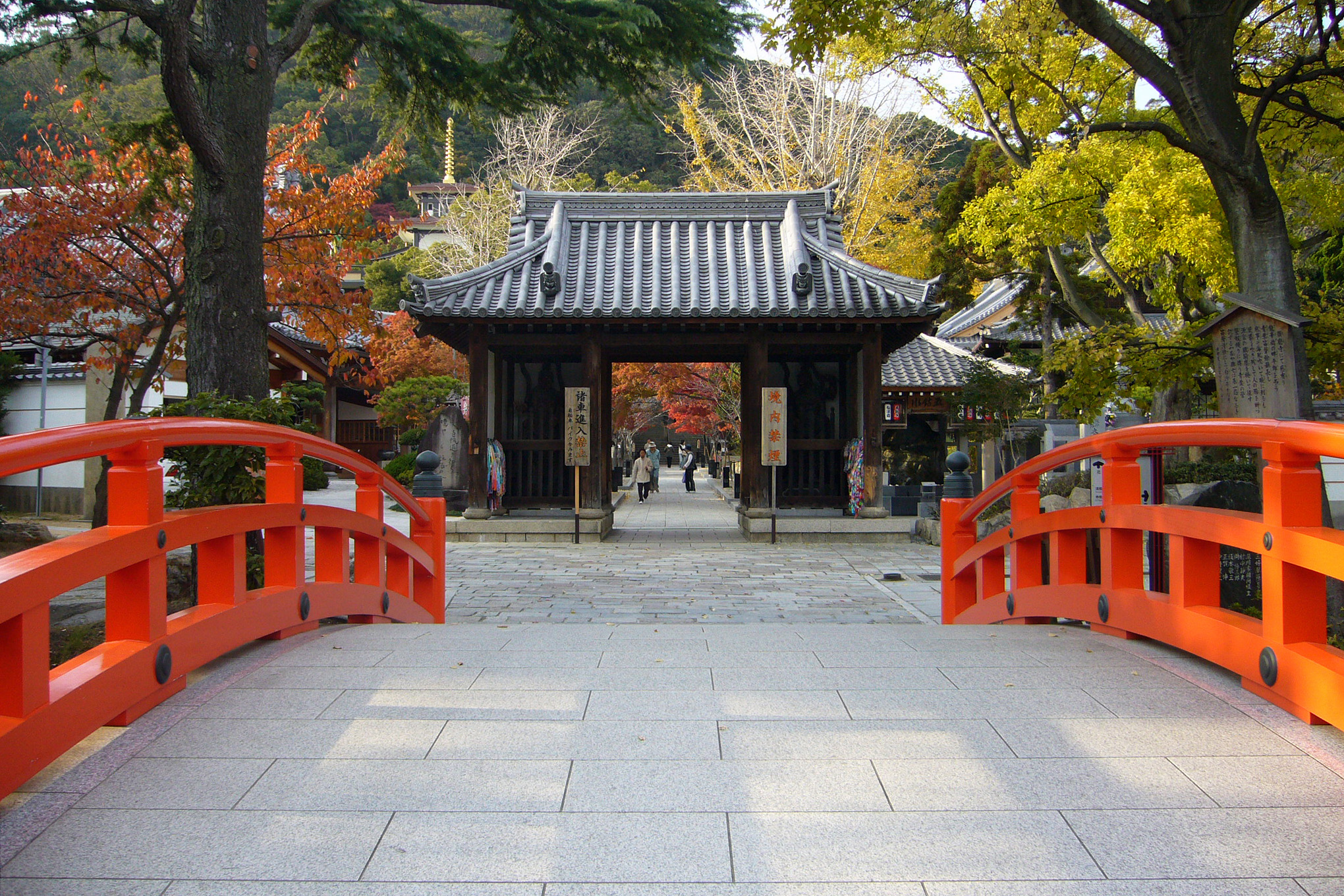 Niōmon gate at Sumadera in Kobe, Hyogo prefecture, Japan